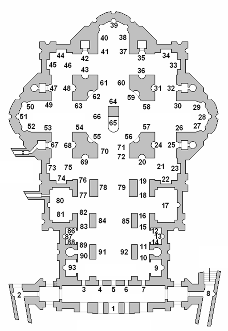 Inside of the Basilica of the Vatican